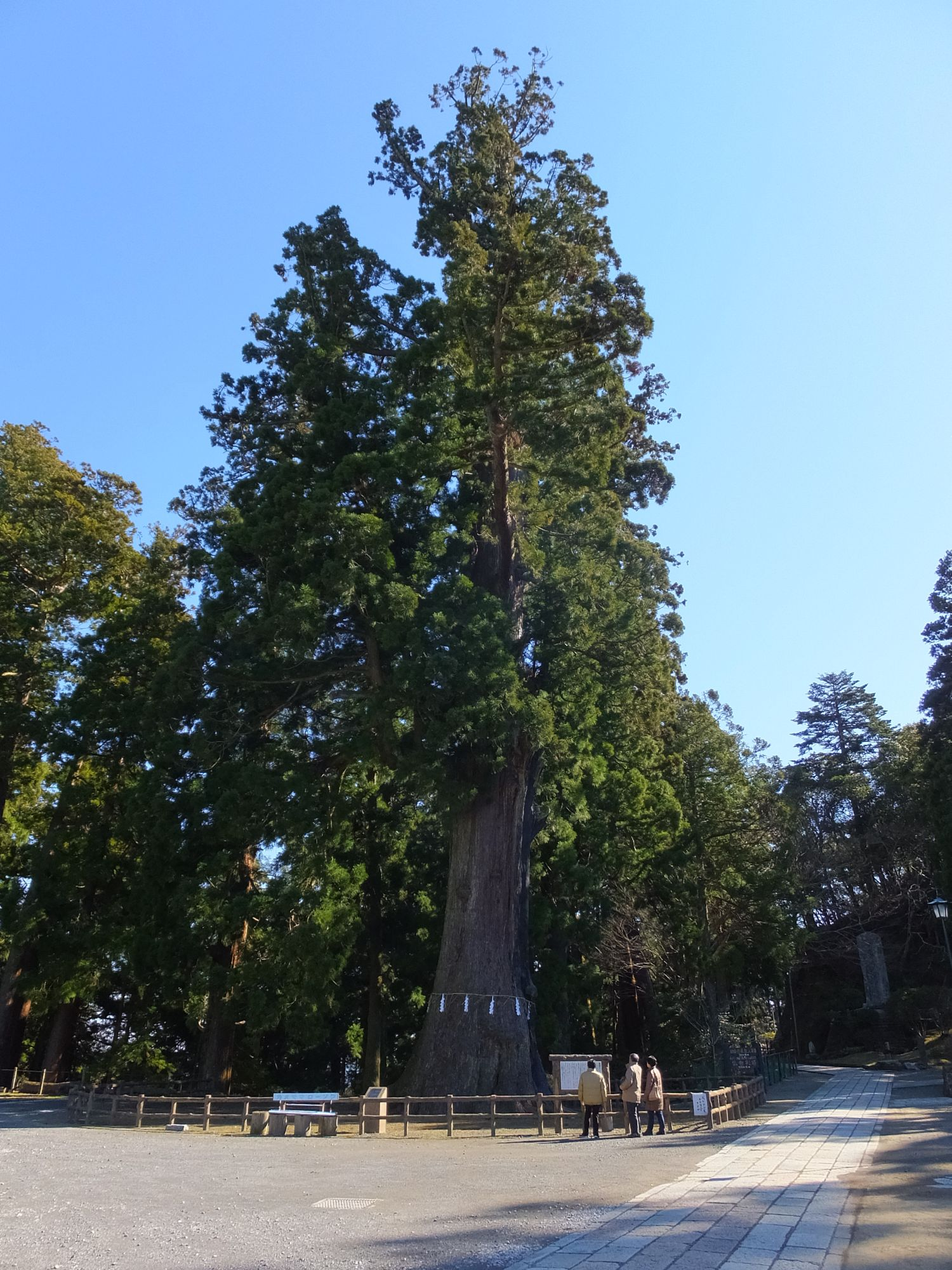 Thousand years cedar at Seichō-ji temple in Kamogawa, Chiba Prefecture